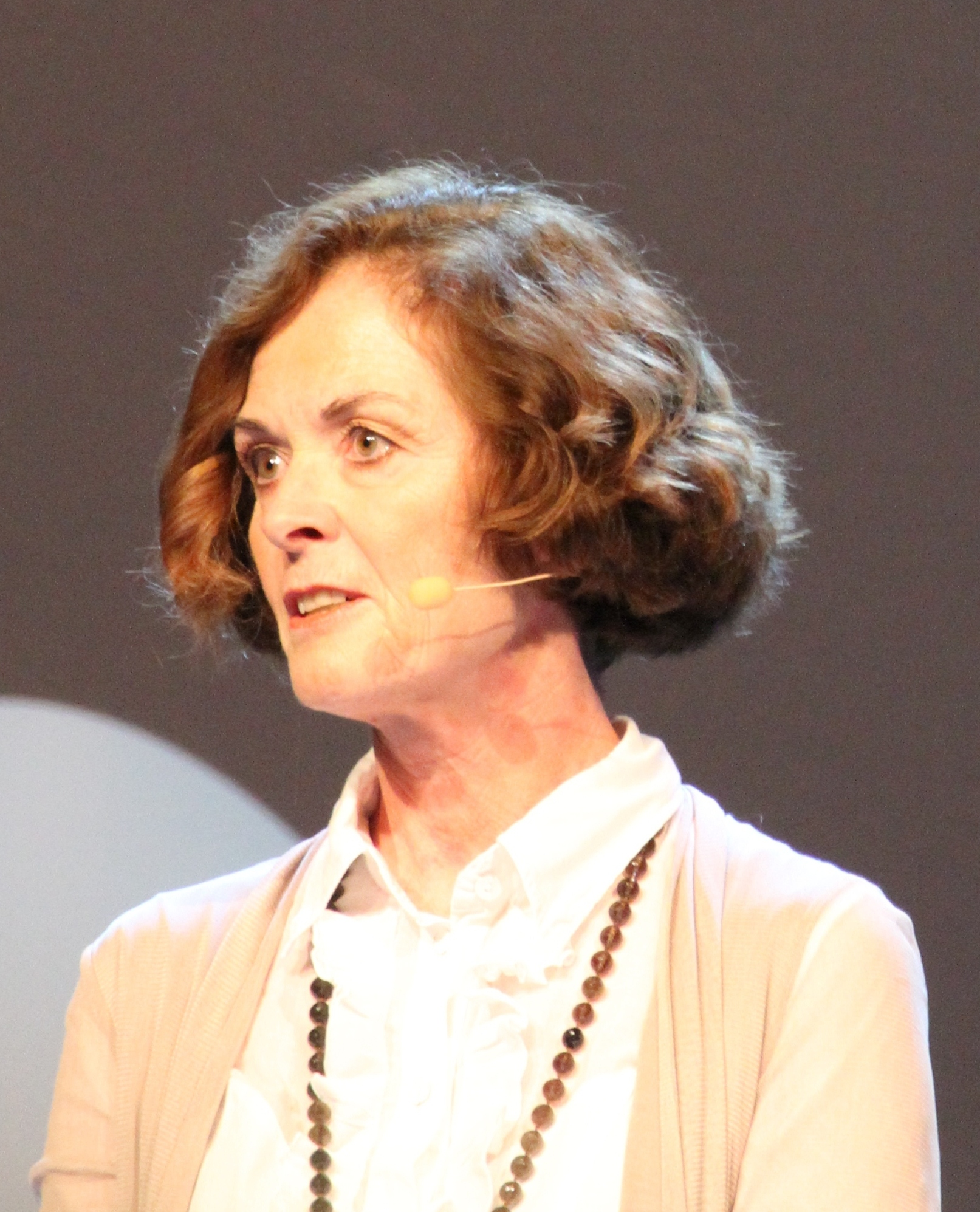 Siri Hatlen, former President of the Board of Helse Sørøst, Norway. President of Sevan Marine. Former CXO of Statoil. Former CEO of Statkraft.